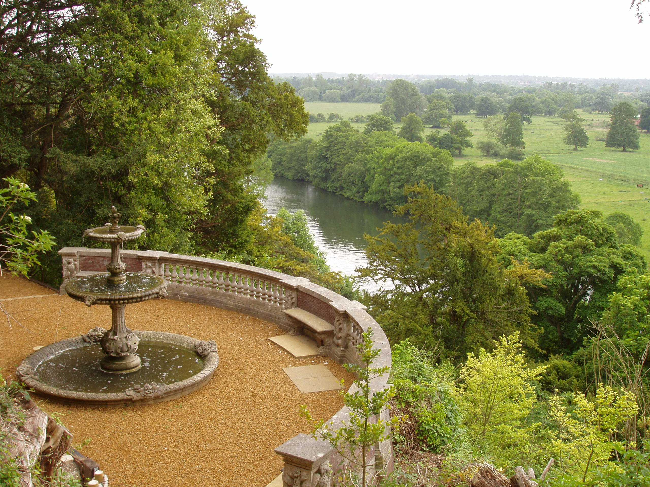 Cliveden, Taplow, Buckinghamshire, England. The Tortoise Fountain and view of the River Thames. Photograph taken by me, June 2005.